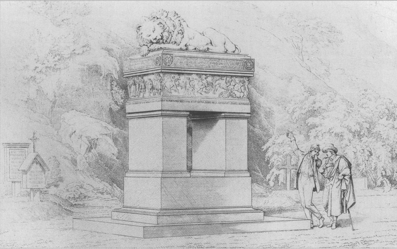 design by Karl Friedrich Schinkel for the grave of Gerhard von Scharnhorst